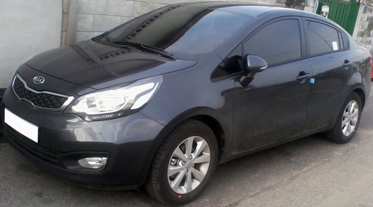 Kia All New Pride